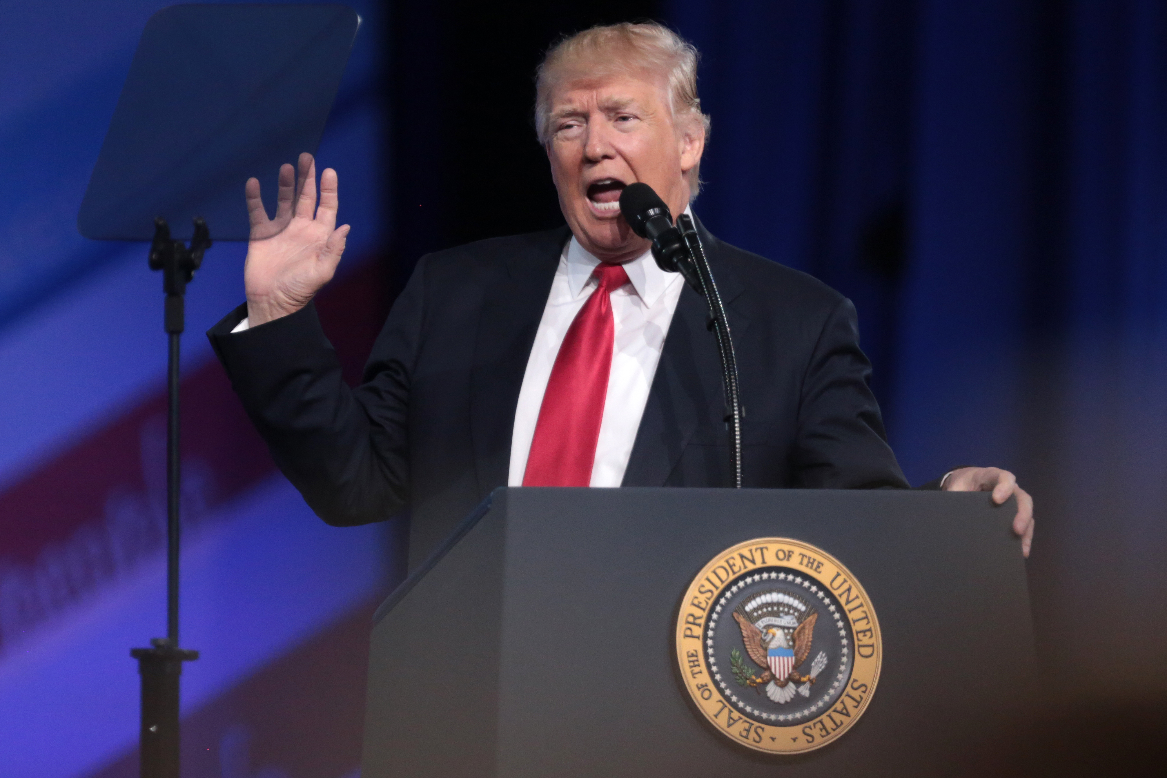 President of the United States Donald Trump speaking at the 2017 Conservative Political Action Conference (CPAC) in National Harbor, Maryland.